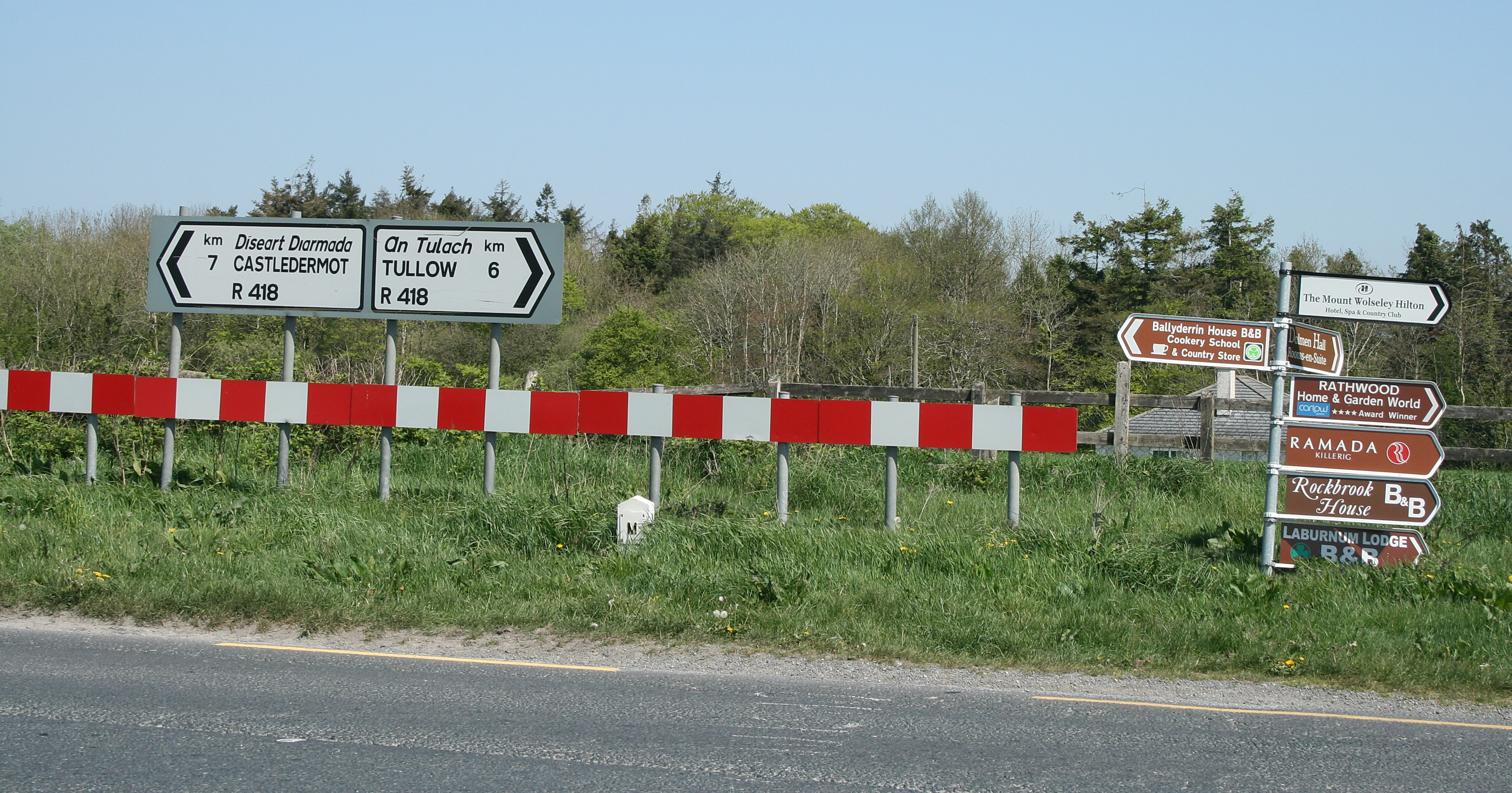 The R418 road at Killerrig Cross Roads, where it crosses the R726 road in County Carlow in Ireland. This is the east-facing view.